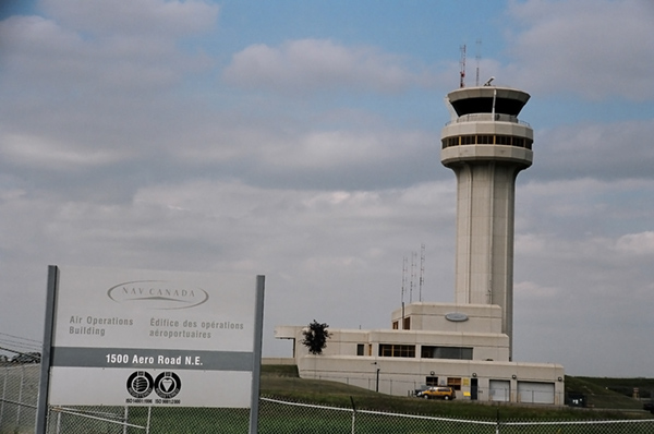 The Control Tower at the Calgary International Airport.